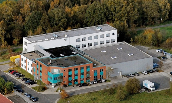 Firmengebäude TAROX AG